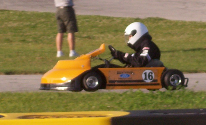 Nicolas Hammann racing his kart at the Briggs & Stratton Motorplex inside Road America.